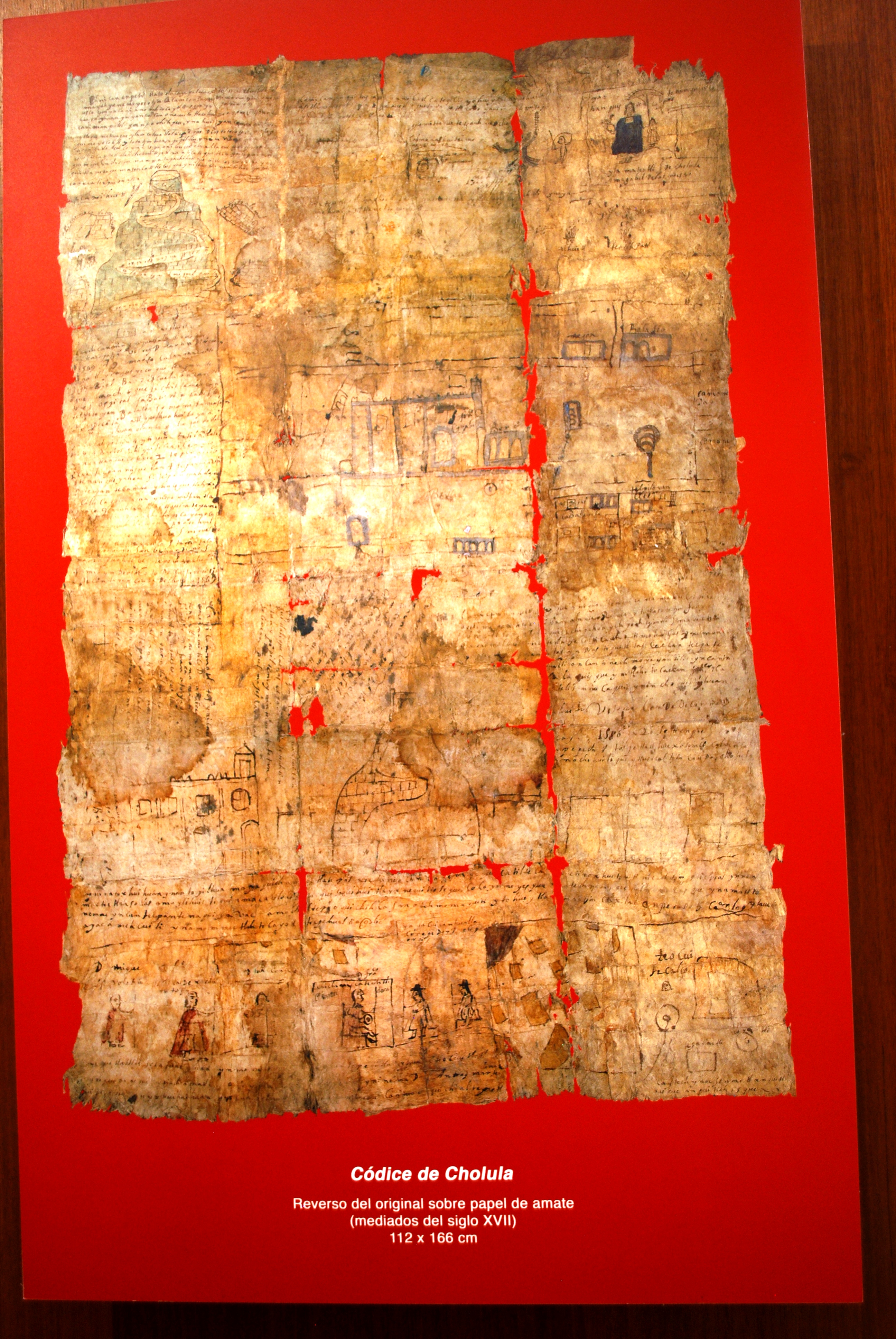 The Cholula Codex from the mid 17th century on display at the Cholula pyramid site museum, Puebla, Mexico